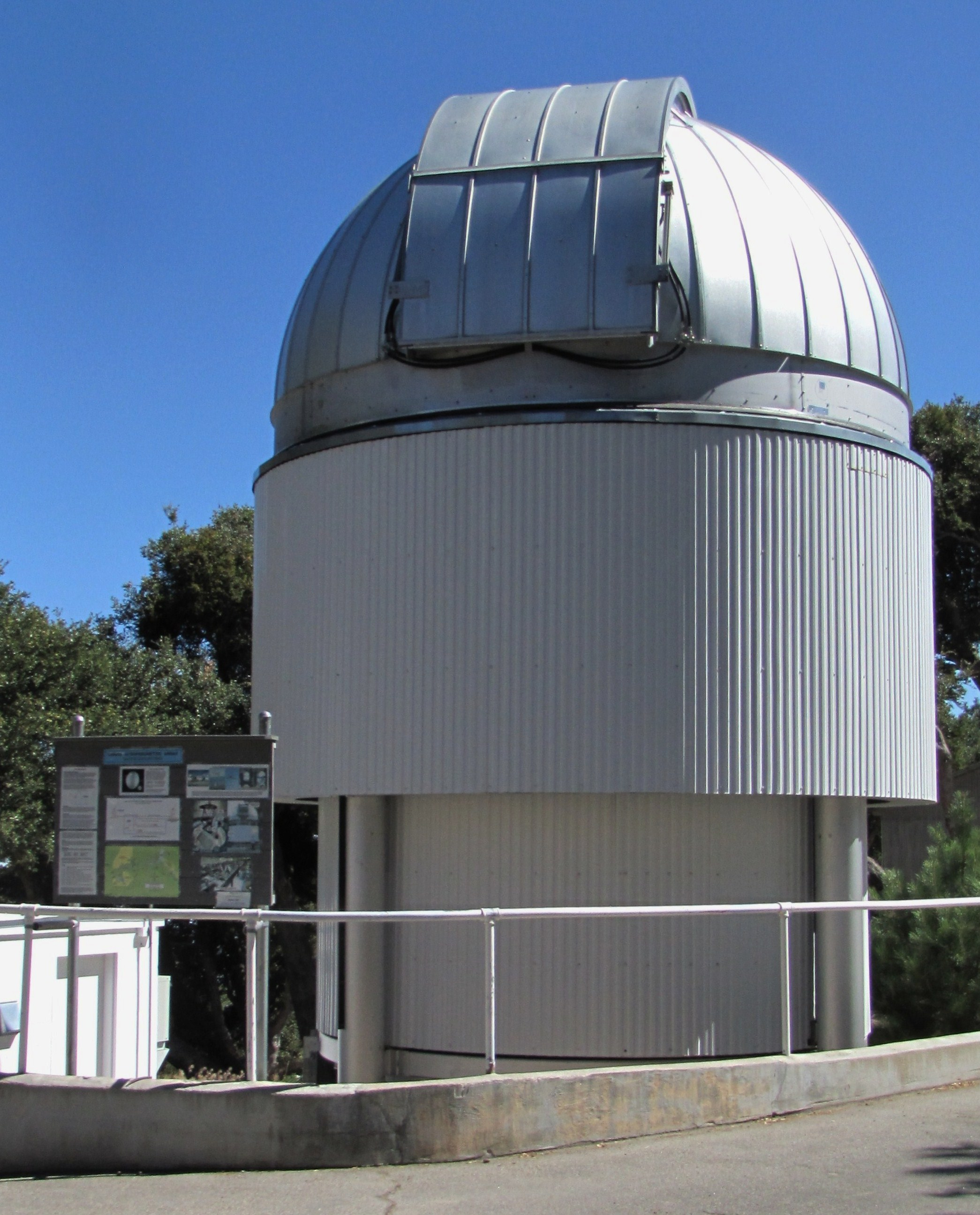 One of the six telescopes that are part of the CHARA array, an astronomical interferometer. Location: Mt. Wilson Observatory complex, California, USA